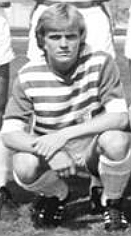 Title: Mannschaftsfoto FC Carl Zeiss Jena Factual corrections and alternative descriptions are encouraged separately from the original description. Additionally errors can be reported at this page to inform the Bundesarchiv. Original historic description: ... Martin Troch 1978...